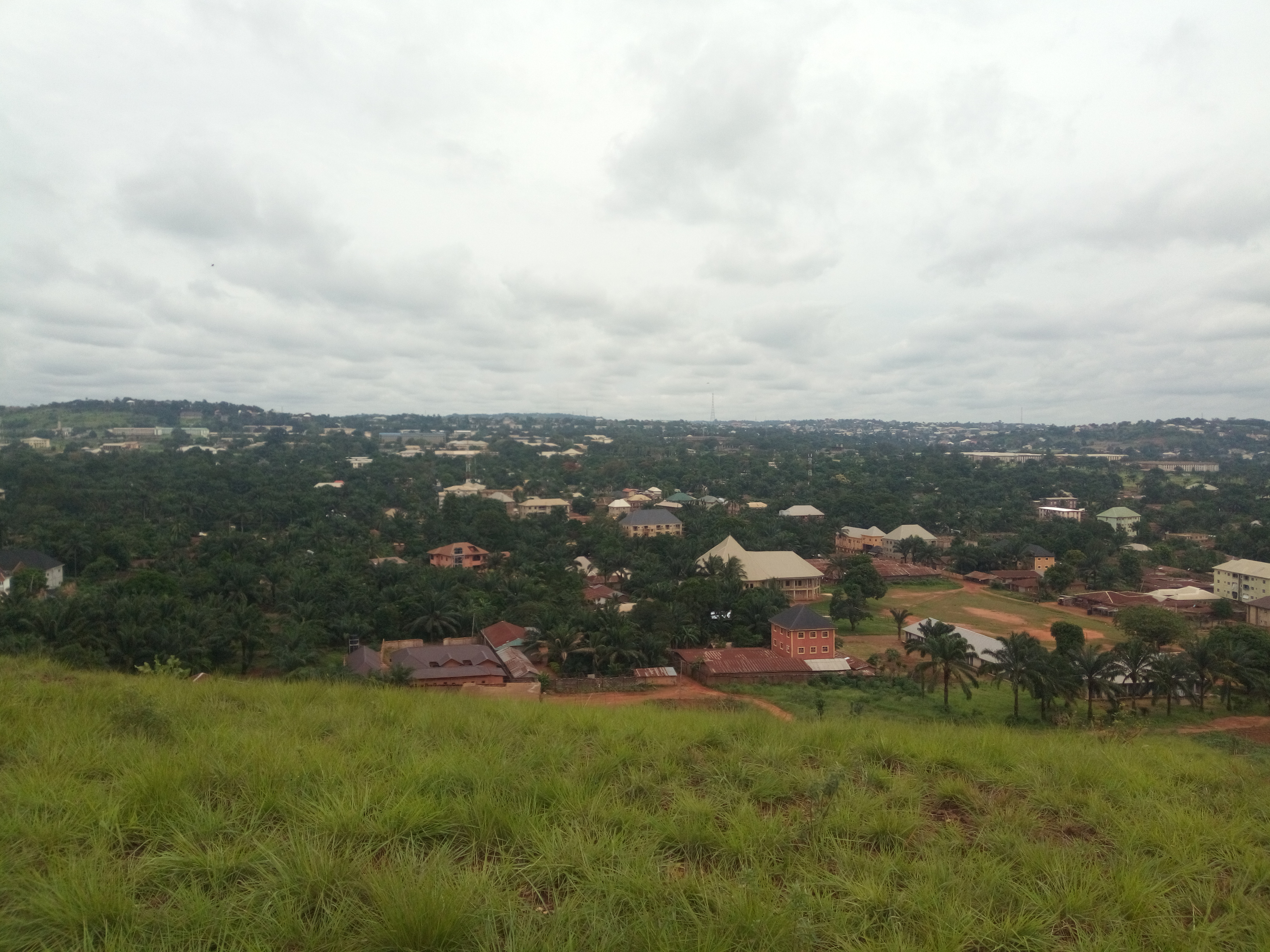 Ariel view of Nsukka